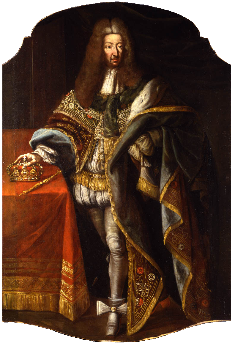 Portrait of Victor Amadeus II of Sardinia (1666-1732)